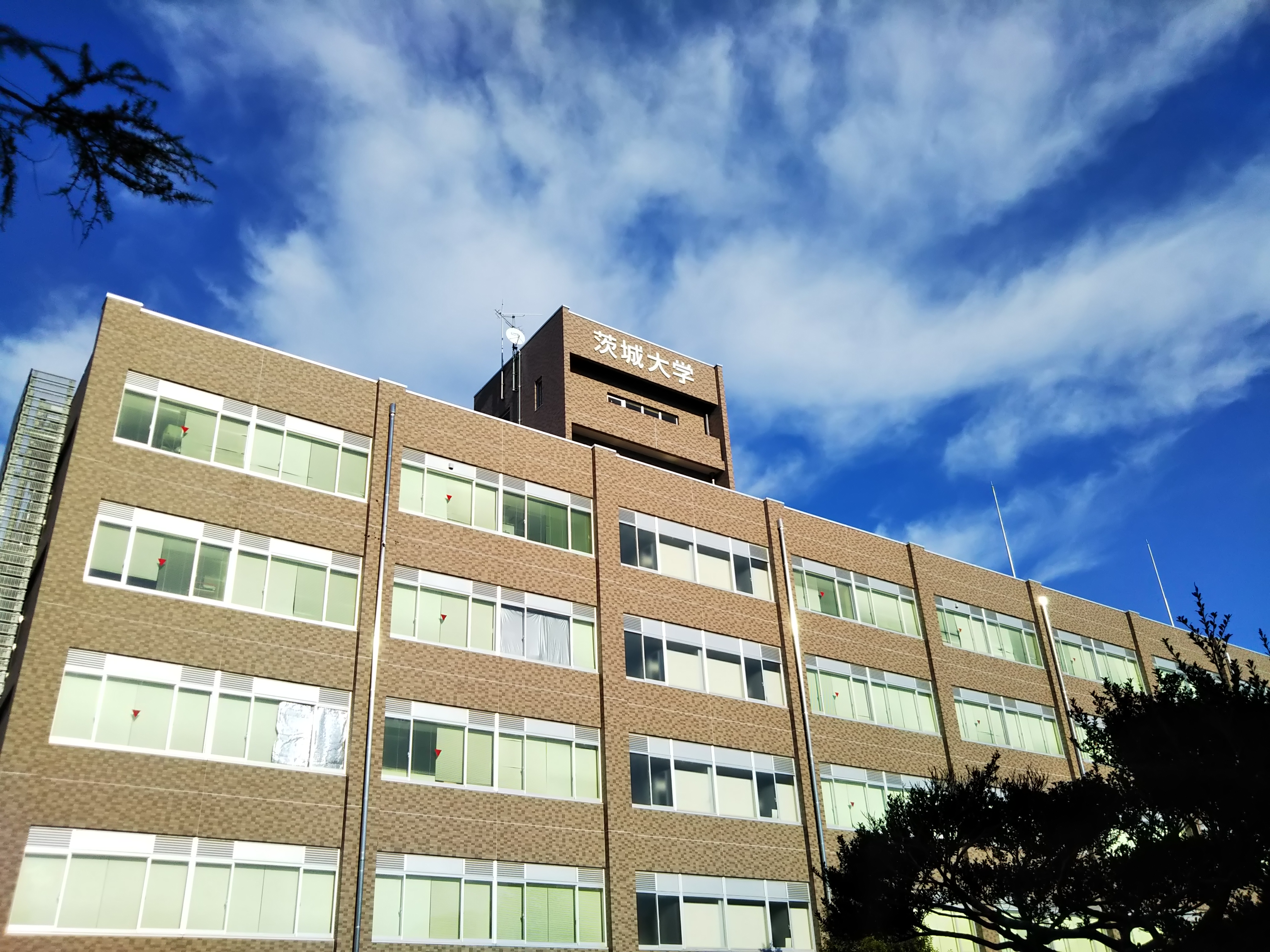 Building A, College of Education at Mito Campus, Ibaraki University in Mito, Ibaraki, Japan.